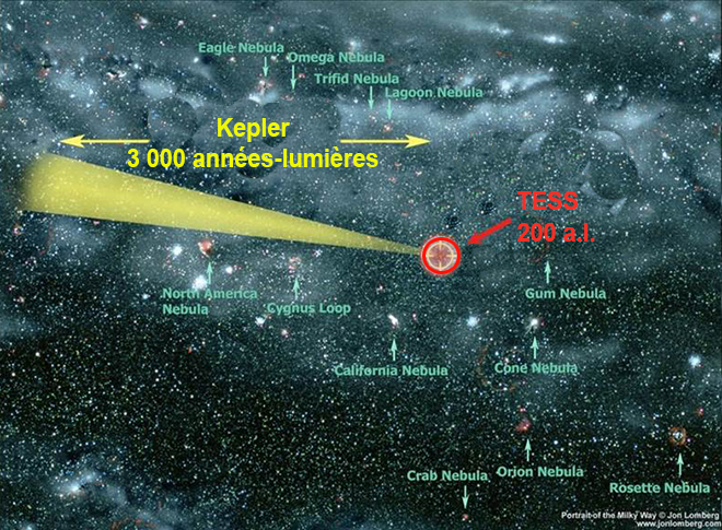 NASA TESS search area (in red) for exoplanets compared to the NASA Kepler search area. TESS will specifically target an all-sky search for exoplanets around nearby, bright stars.